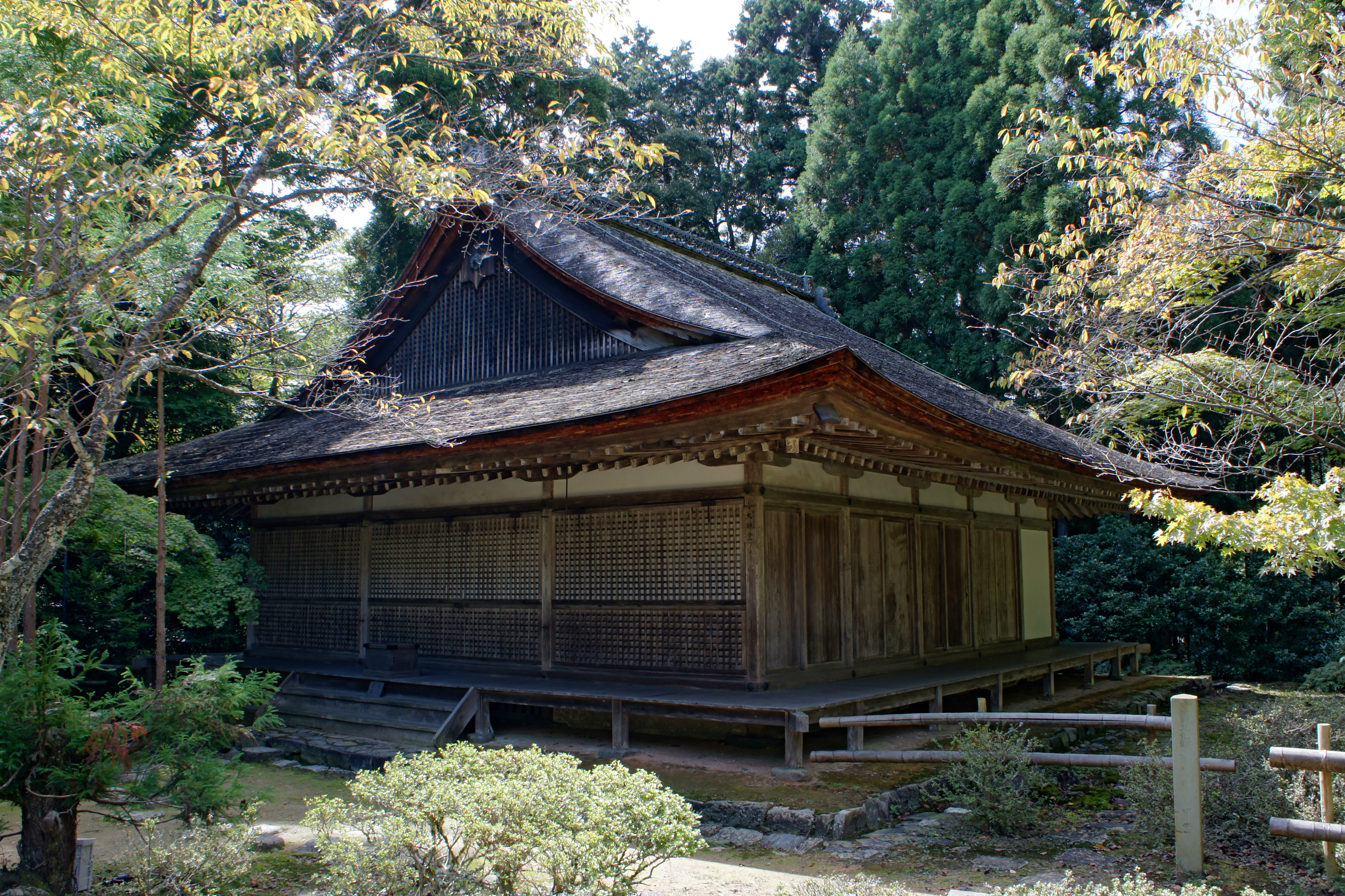 Jingo-ji in Ukyō-ku, Kyoto, Kyoto Prefecture, Japan.